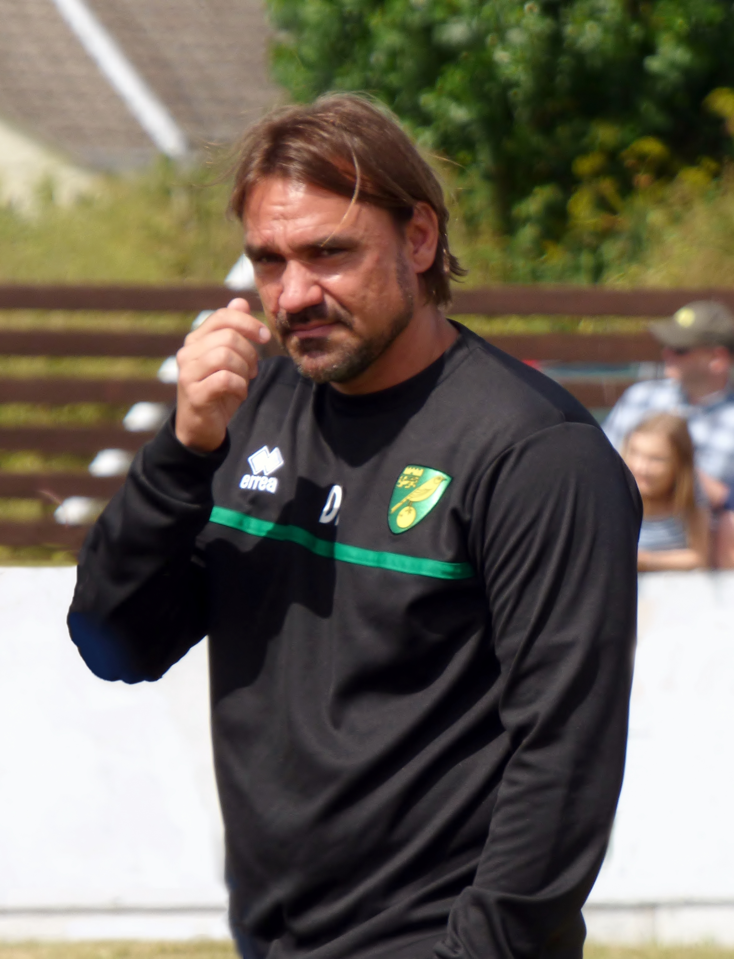 Daniel Farke prior to his first game in charge of Norwich City in England against Lowestoft Town